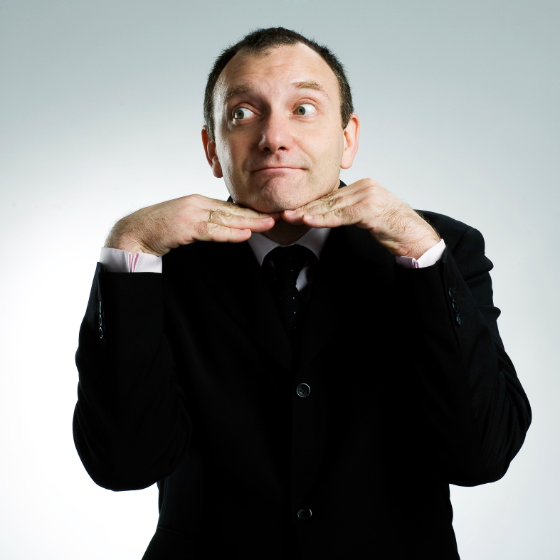 Marko Stojanović — Serbian actor, mime artist, cultural and humanitarian activist Српски (ћирилица): Марко Стојановић — српски глумац, пантомимичар, културни и хуманитарни радник Srpski (latinica): Marko Stojanović — srpski glumac, pantomimičar, kulturni i humanitarni radnik